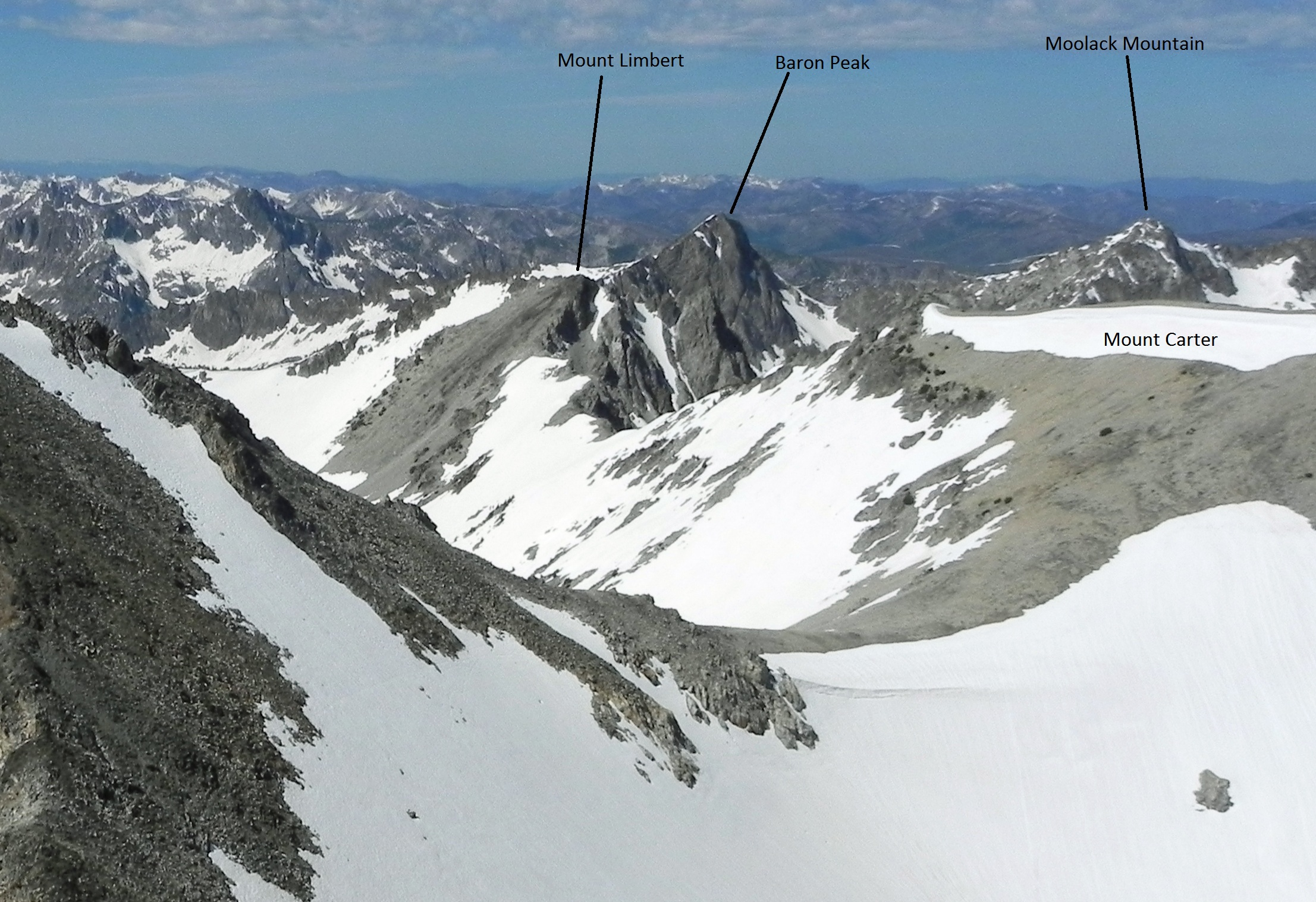 Mount Carter, Mount Limbert, Baron Peak, and Moolock Mountain in the Sawtooth Range viewed from Thompson Peak.